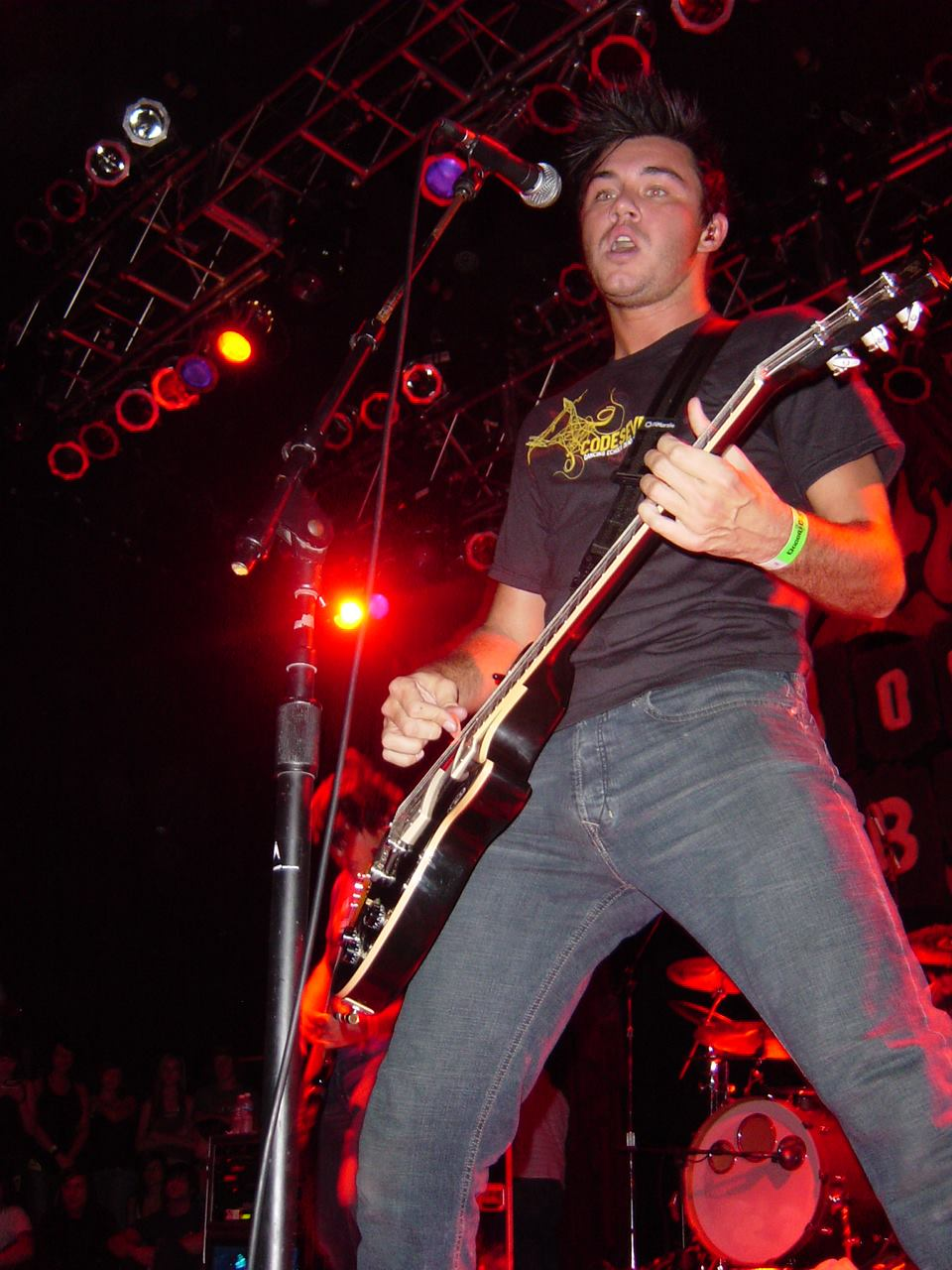 Beau Burchell on stage with Saosin at The House of Blues Anahiem